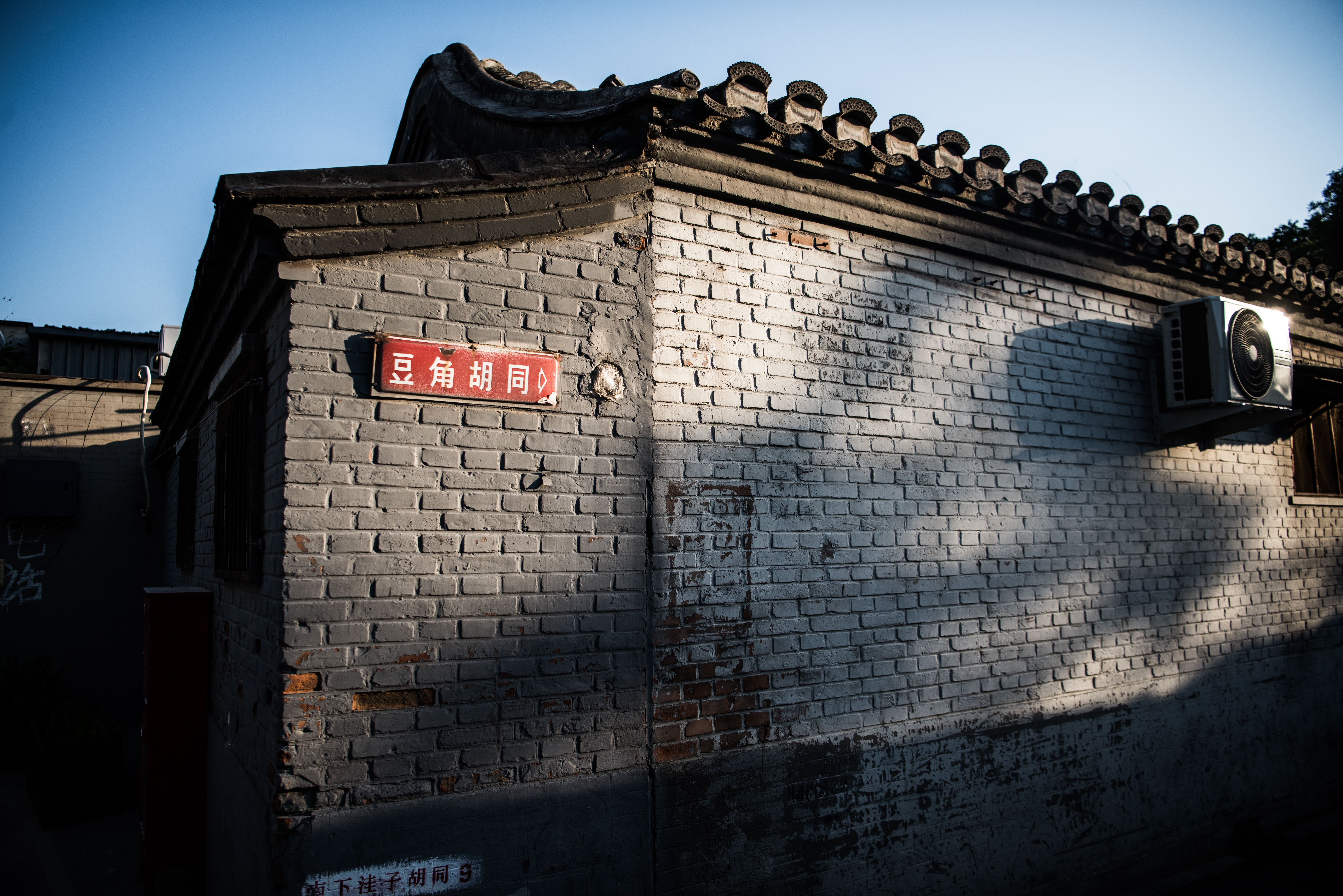 Doujiao Hutong